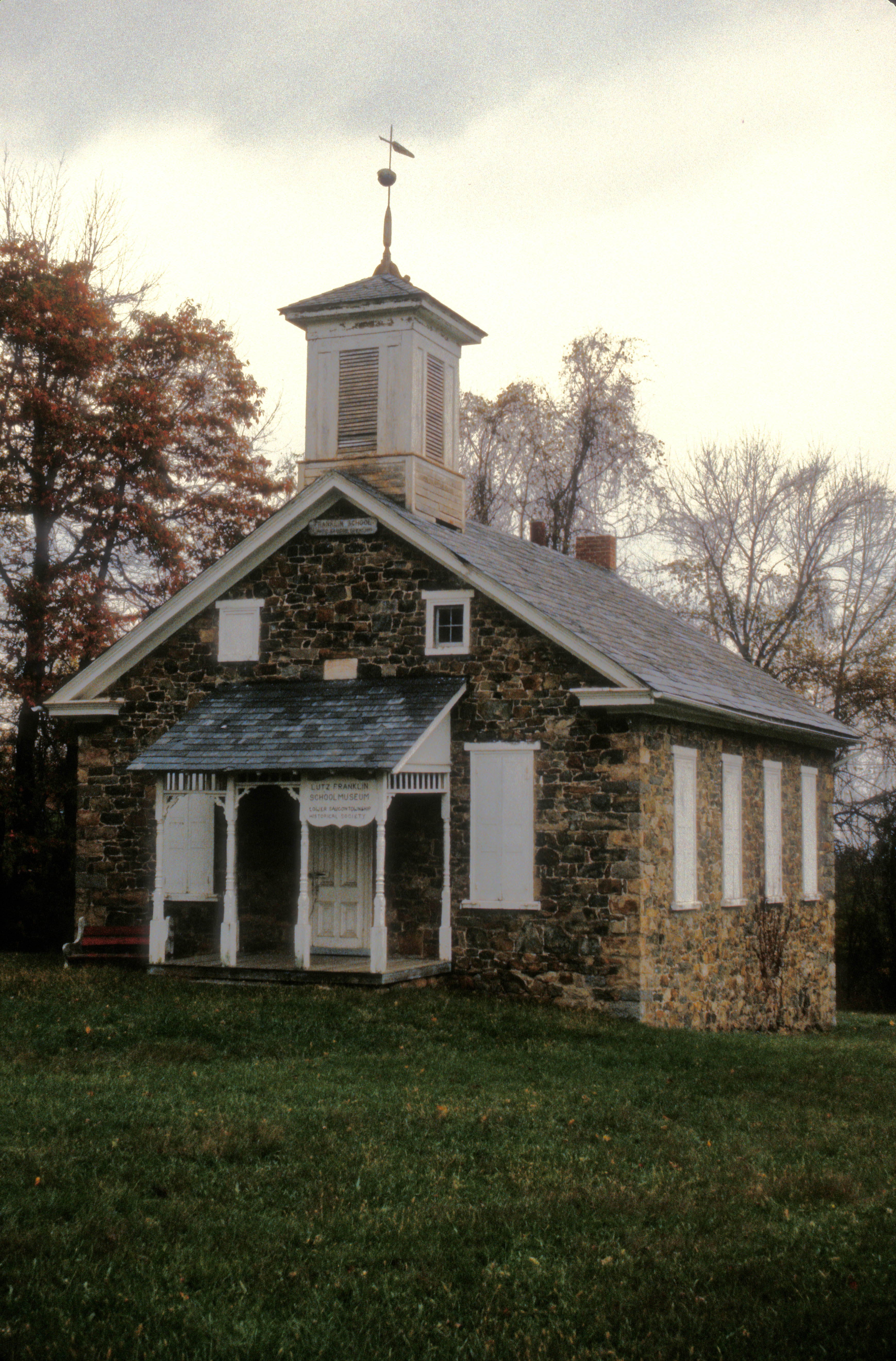 One-room schoolhouse built circa 1880.